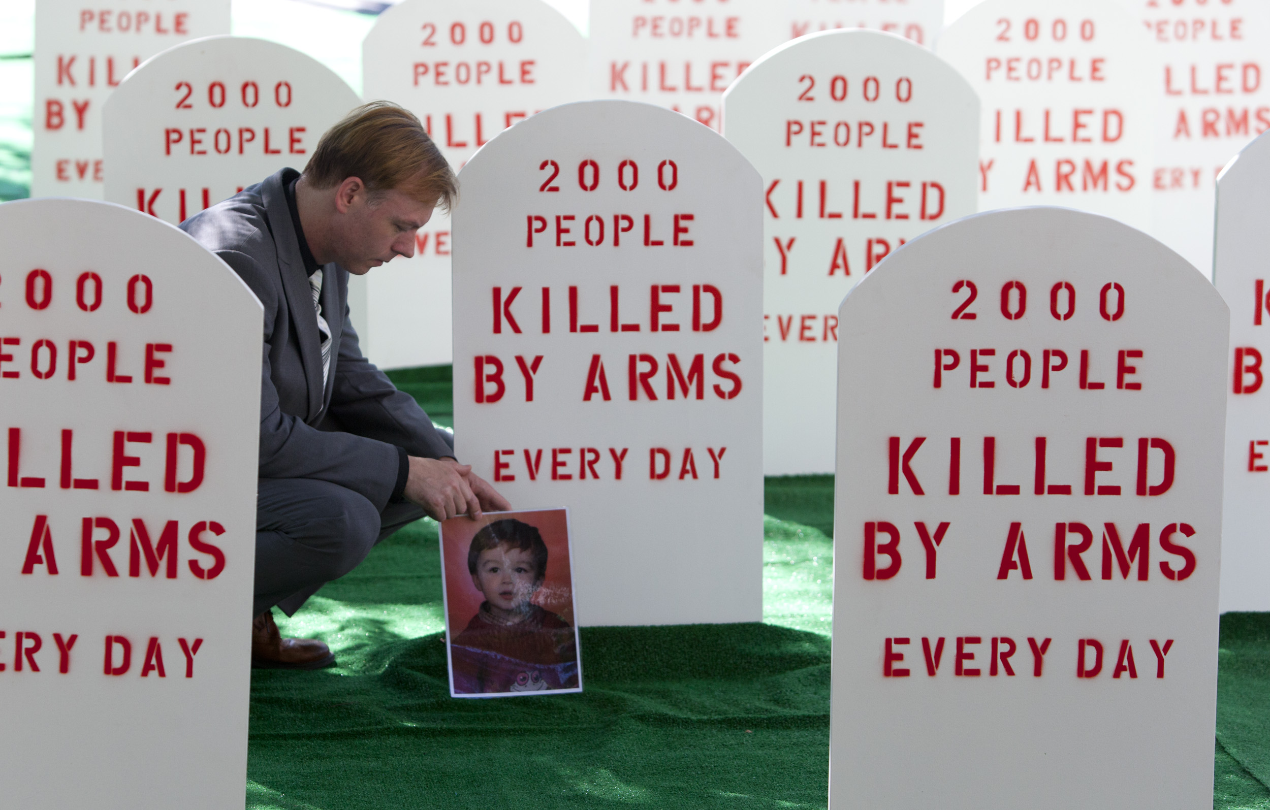 Control Arms campaigner David Grimason lays a photo of his son Alistair, who was killed by stray bullets in a gun fight, at the base of a mock tombstone. Control Arms coalition set up a mock graveyard next to the United Nations building in New York July 25, 2012. They are demonstrating as the negotiations for an Arms Trade Treaty comes to a close on Friday. Control Arms/ Andrew Kelly